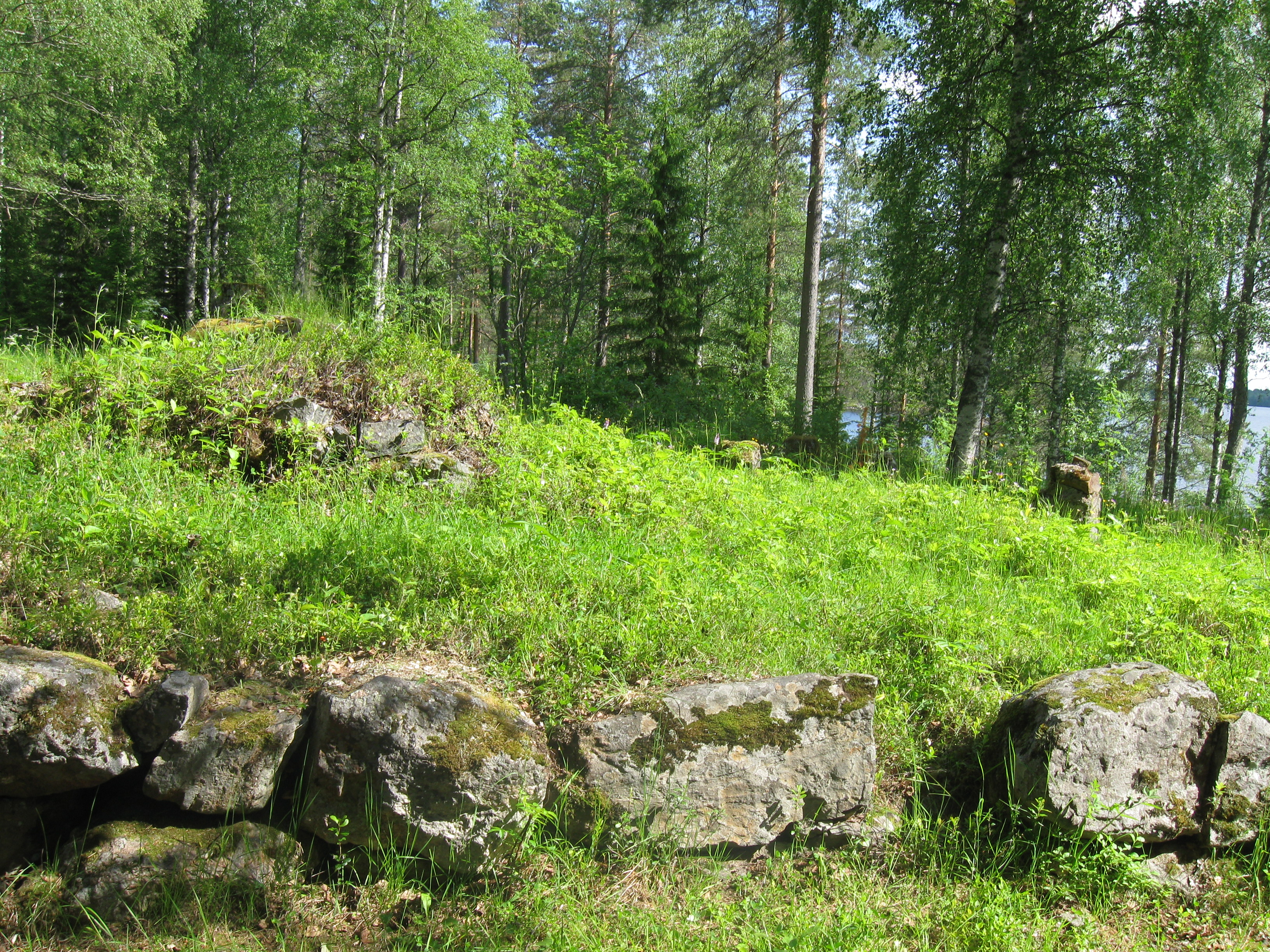 The last remains of the original Turjanlinna buildings, the home of the Finnish author Ilmari Kianto, in July 2015 in Suomussalmi.